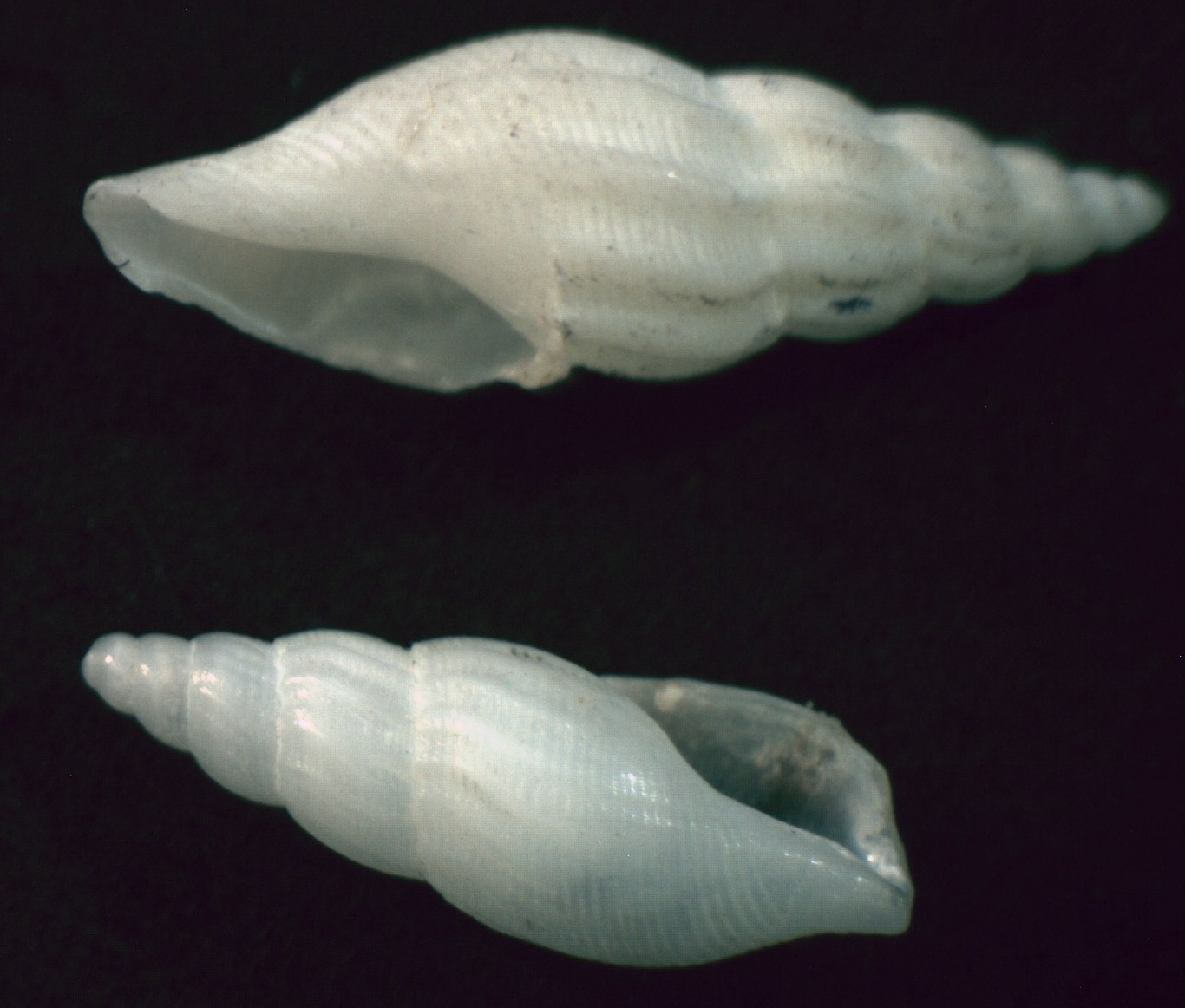 Guraleus amplexus (Gould, 1860); family Mangeliidae